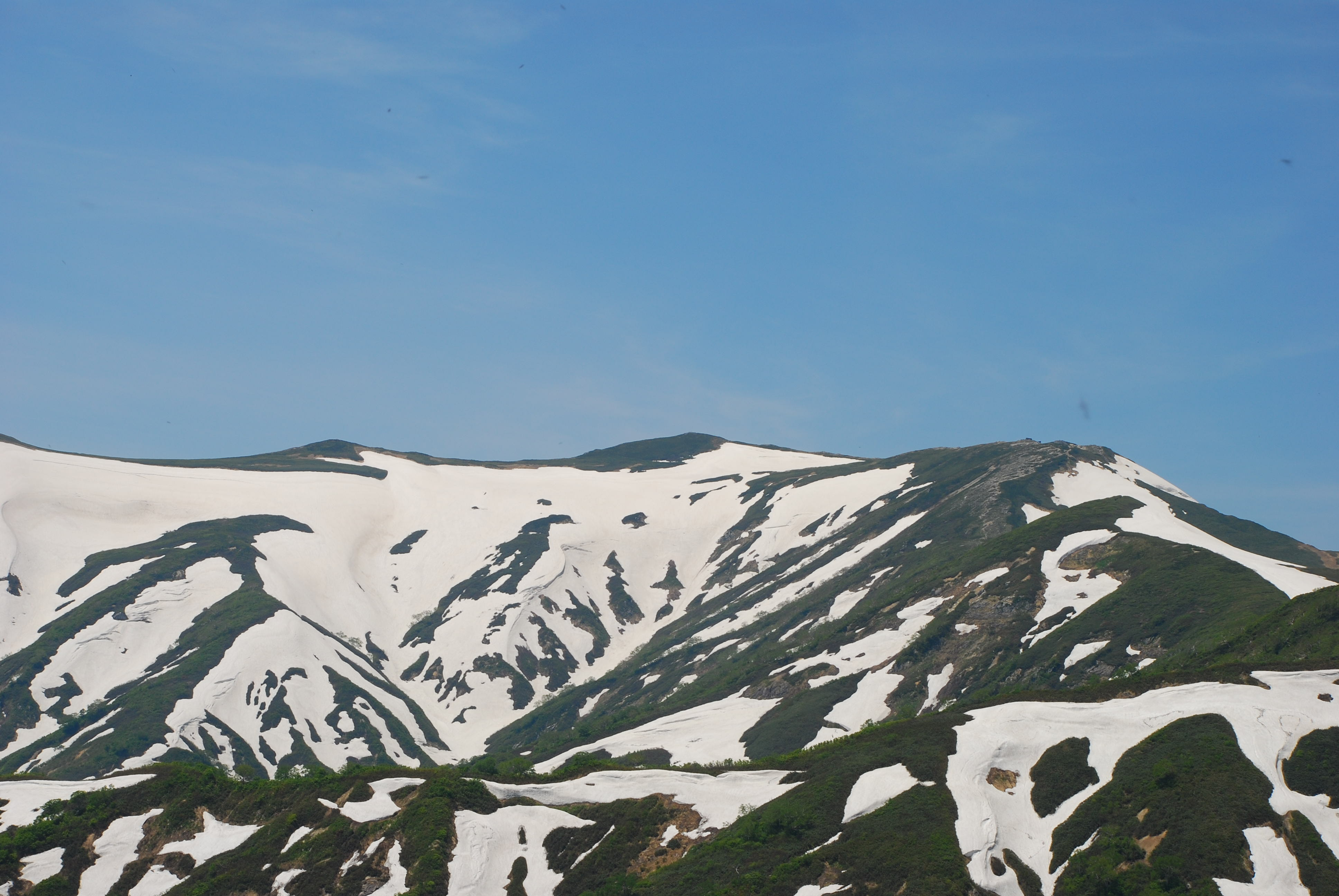 Mount Iide seen from the SSE. Summit in the center.